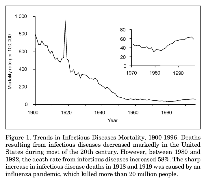 Trends in Infectious Diseases Mortality, 1900-1996. Deaths resulting from infectious diseases decreased markedly in the United States during most of the 20th century. However, between 1980 and 1992, the death rate from infectious diseases increased 58%. The sharp increase in infectious disease deaths in 1918 and 1919 was caused by an influenza pandemic, which killed more than 20 million people.